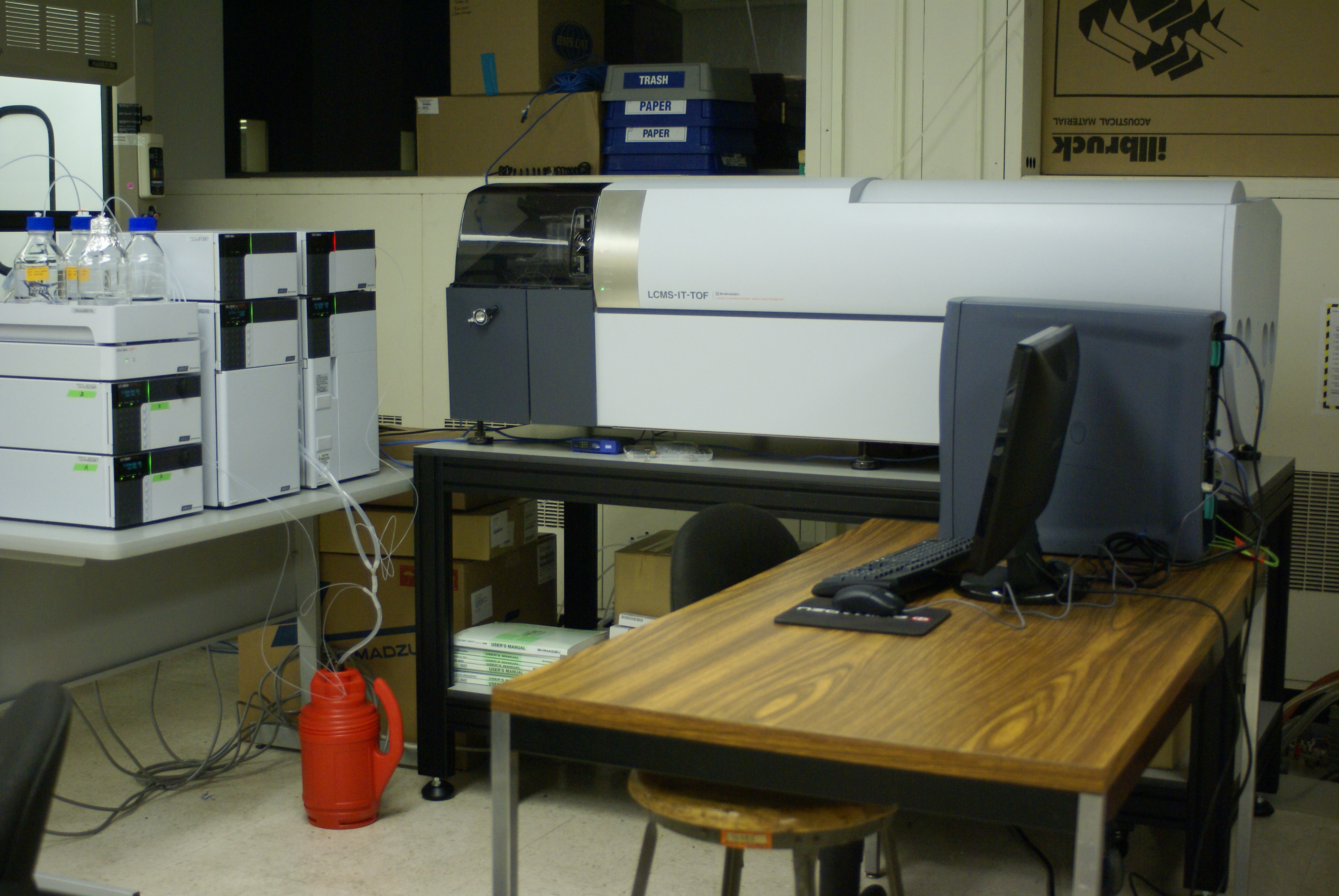 A Shimadzu Ion Trap-Time of Flight mass spectrometer (center), HPLC-UV (left).